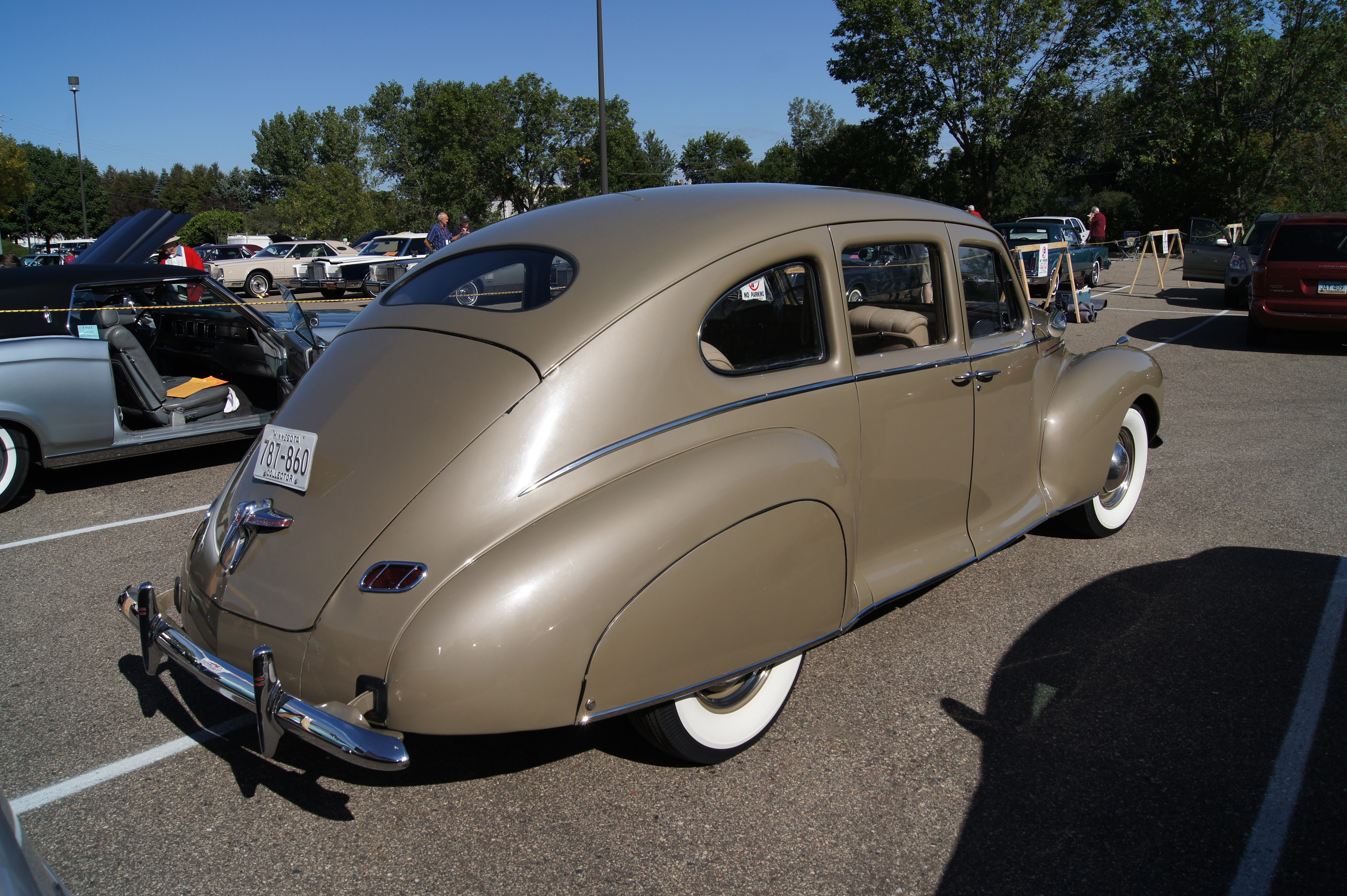 Lincoln & Continental Owners Club 2012 Mid-America National Meet August 15 - 19, 2012 Park Plaza Hotel, 4460 West 78th Street Circle Bloomington, Minnesota Hosted by the North Star Region